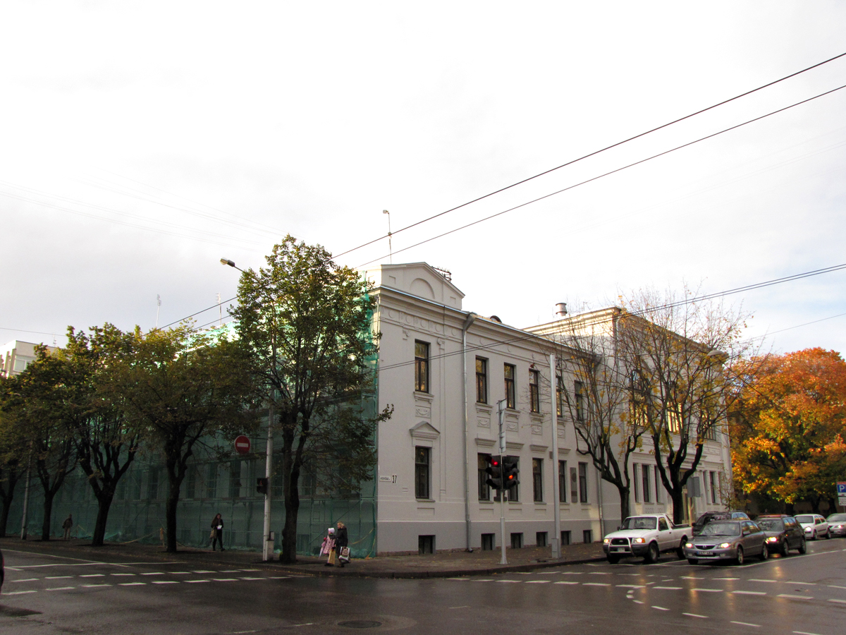 Building where University of Lithuania was established in 1922.